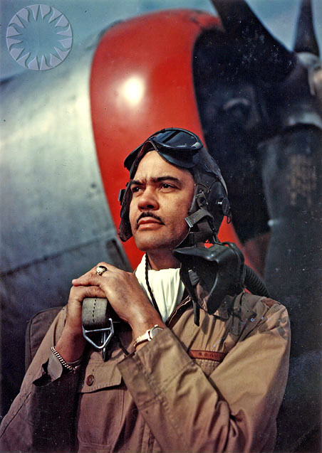 SI Neg. 2004-55822. Date: na...Posed, waist-length portrait of Col. Benjamin O. Davis, Jr in flying gear, including helmet, goggles, and oxygen mask, with parachute slung over his right shoulder by its straps, standing before the nose of a P-47